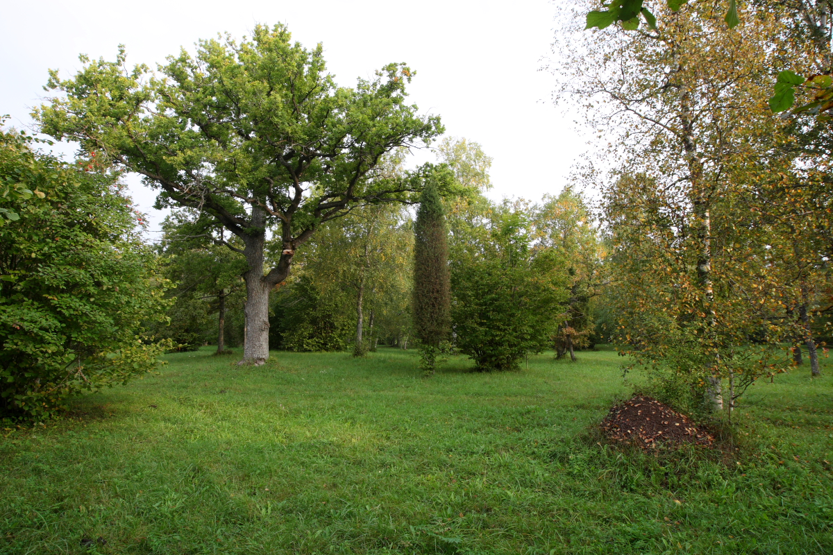 Laelatu, Lääne County, Estonia